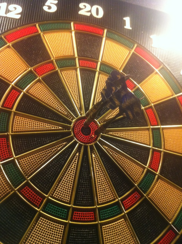 A hat trick in darts.